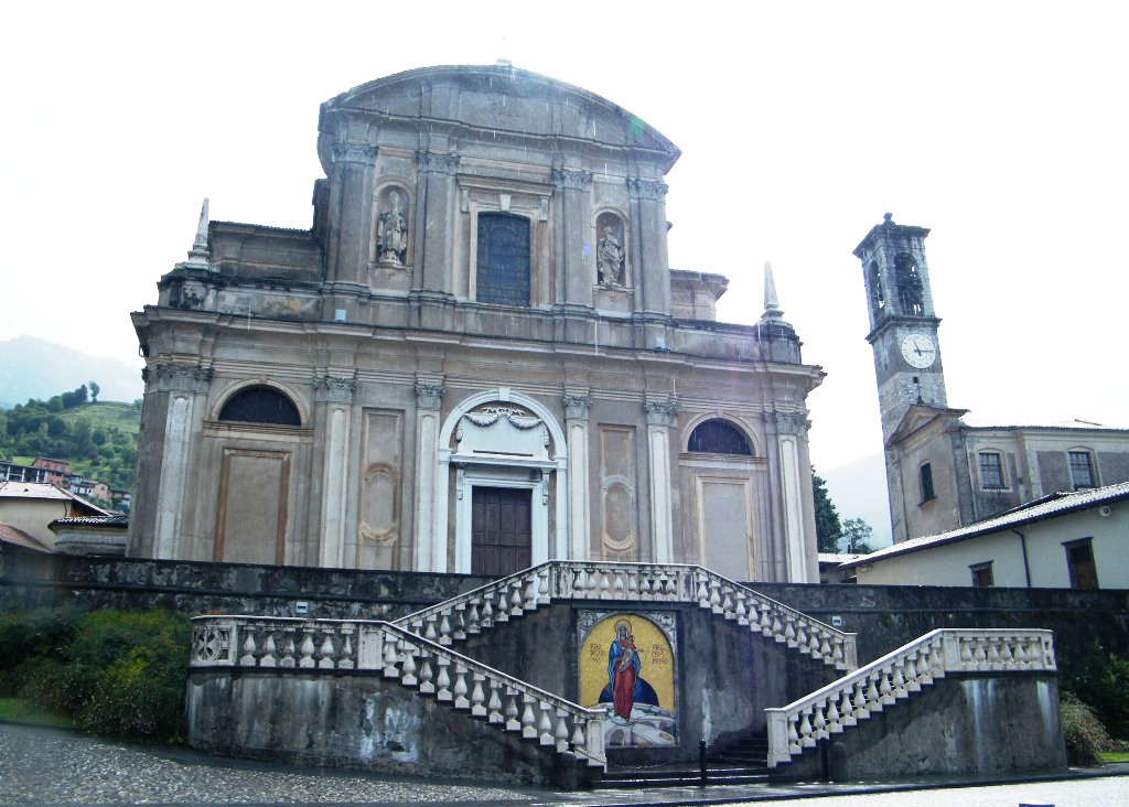 Church of St Zeno and ancient plebis. Sale Marasino.